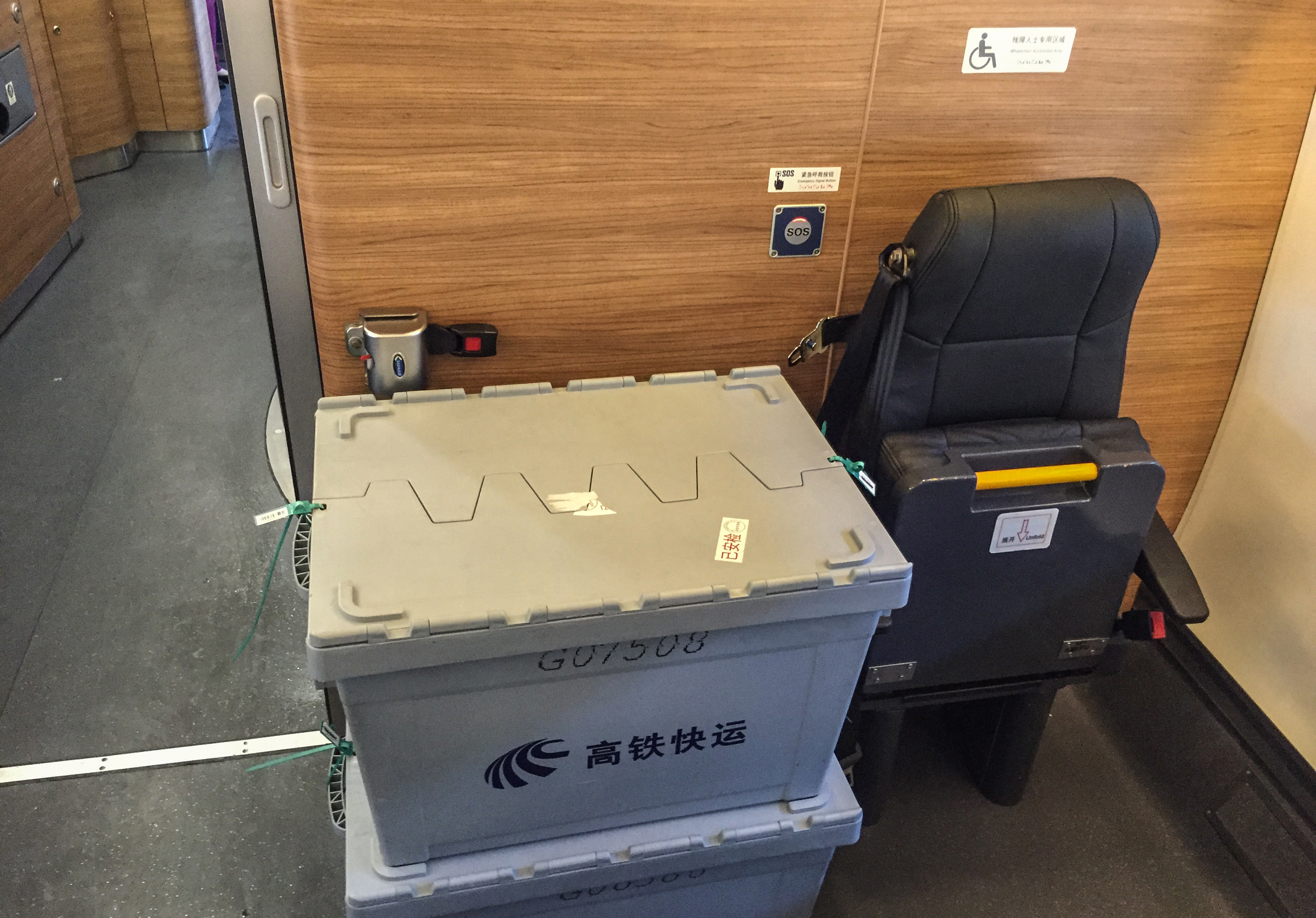 Occupied by parcel!